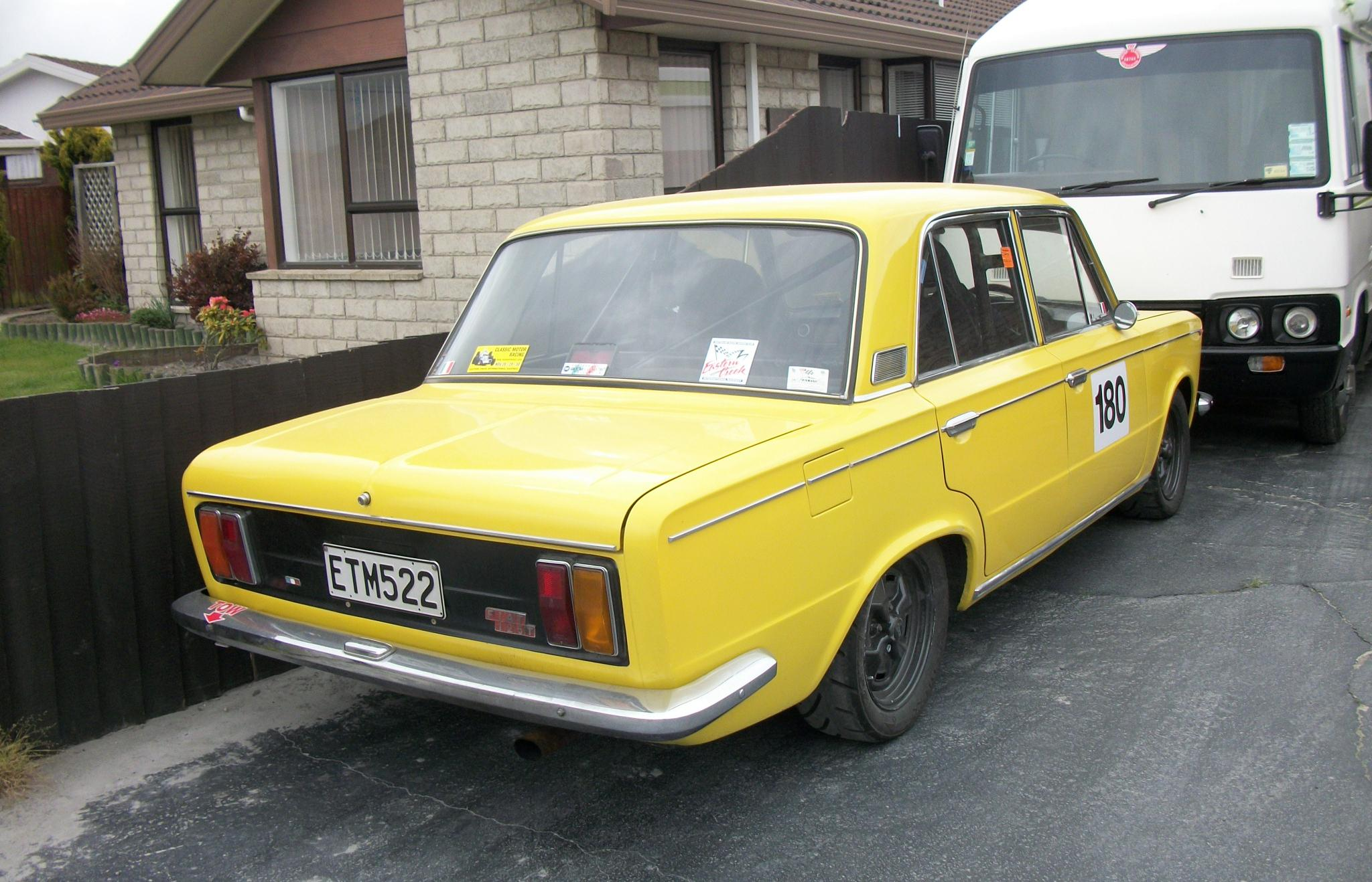 ETM522 A great find near my nana's place in East Christchurch a month or so back was this race-prepared 125T, which I have seen quite often while over that way. This street was a gold-mine for old cars - the Dolomite further back in my photostream was also down here, as well as a friend of my nana who owns some interesting classics, which I shall upload soon! These are nice cars, and I think this one is suited well to classic racing...